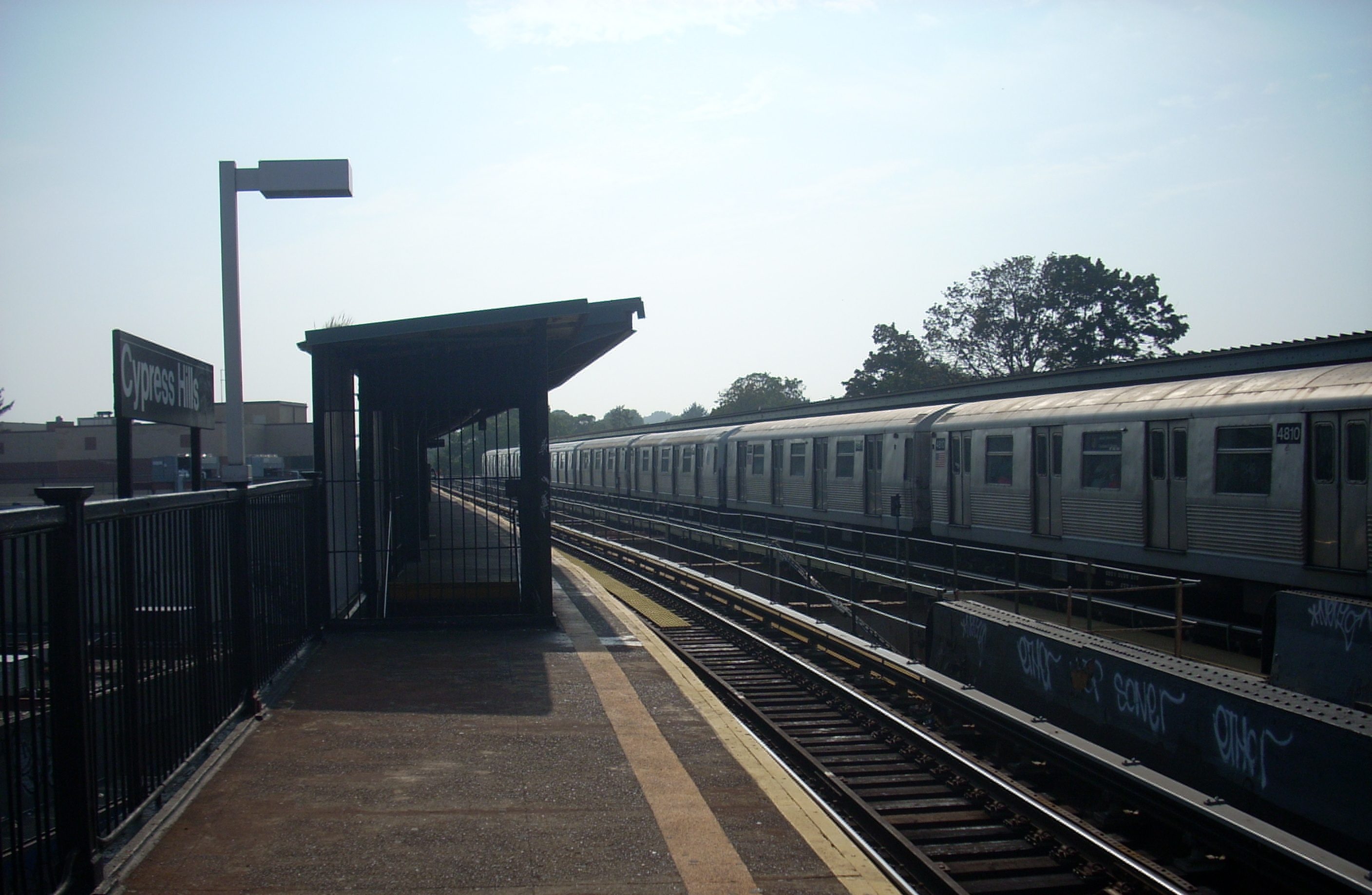 Cypress Hills station on the J line